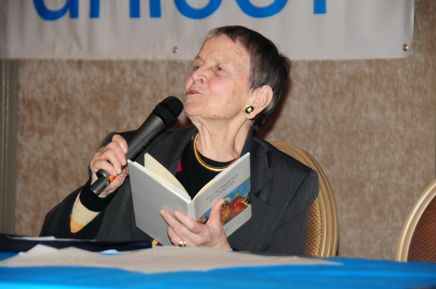 Rector of the Sorbonne University and UNICEF ambassador Helene Glykatzi Ahrweiler speaks in an afternoon of charity, under the auspices of the Athanasios Ktoridis Foundation